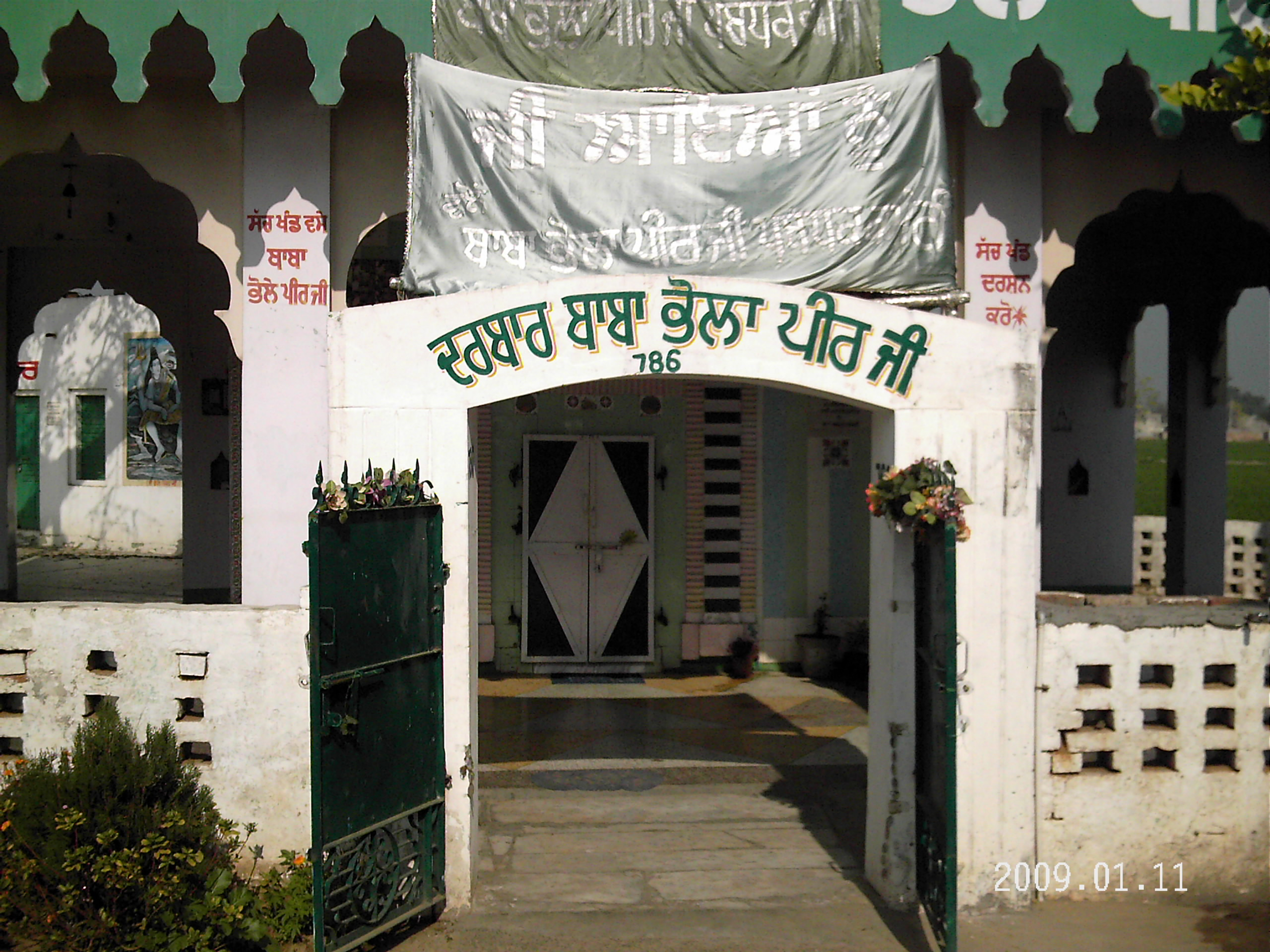 Entrance of the Temple